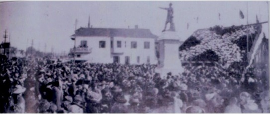 Dedication ceremony of monument to Jefferson Davis, 22 February, 1911. Canal Street at Hagan Avenue, the latter being renamed "Jefferson Davis Avenue". The "Whites Only" ceremony included a mass of school children dressed in red, white, and blue forming a Confederate "living battle flag", in which formation the sang "Dixie". The date of dedication was said to correspond with the 50th anniversary of the inauguration of Jefferson Davis as President of the Confederate States of America, though the actual anniversary would have been 4 days earlier since Davis's inauguration was on 18 February 1861.